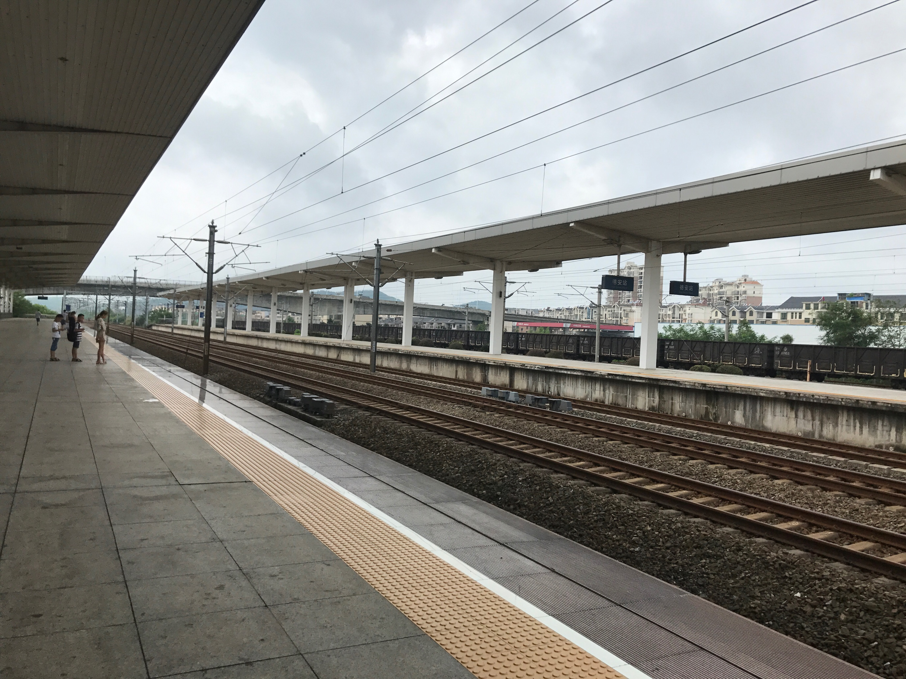 De'an Railway Station is a railway station located in De'an County of Jiujiang city prefecture, in Jiangxi province, eastern China.